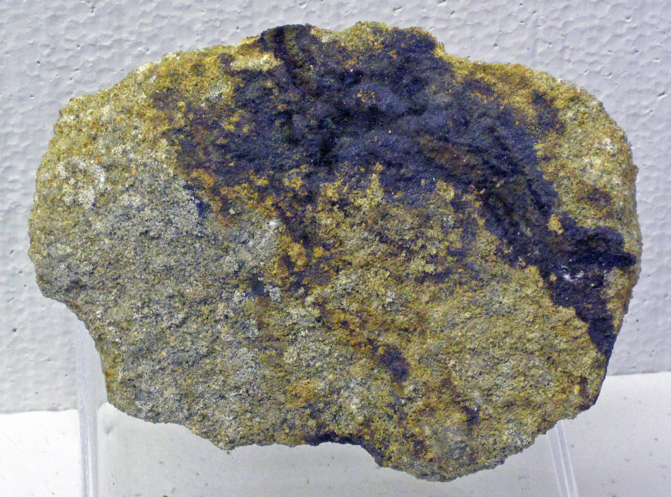 Selenium in sandstone from New Mexico, USA. (SDSMT 3909, South Dakota School of Mines and Technology Museum of Geology, Rapid City, South Dakota, USA) A mineral is a naturally-occurring, solid, inorganic, crystalline substance having a fairly definite chemical composition and having fairly definite physical properties. At its simplest, a mineral is a naturally-occurring solid chemical. Currently, there are over 4900 named and described minerals - about 200 of them are common and about 20 of them are very common. Mineral classification is based on anion chemistry. Major categories of minerals are: elements, sulfides, oxides, halides, carbonates, sulfates, phosphates, and silicates. Elements are fundamental substances of matter - matter that is composed of the same types of atoms. At present, 118 elements are known (four of them are still unnamed). Of these, 98 occur naturally on Earth (hydrogen to californium). Most of these occur in rocks & minerals, although some occur in very small, trace amounts. Only some elements occur in their native elemental state as minerals. To find a native element in nature, it must be relatively non-reactive and there must be some concentration process. Metallic, semimetallic (metalloid), and nonmetallic elements are known in their native state. The rock shown above is from a "roll front deposit", in which native selenium occurs along a redox front in fluvial sandstone (see Granger & Santos, 1982). Stratigraphy & age of host rock: fluvial sandstone, Westwater Canyon Member, Morrison Formation, Upper Jurassic Locality; Section 23 Mine, Ambrosia Lake Mining District, north of Grants, New Mexico, USA Reference cited: Granger & Santos (1982) - Geology and ore deposits of the Section 23 Mine, Ambrosia Lake District, New Mexico. United States Geological Survey Open-File Report 82-207. 70 pp.